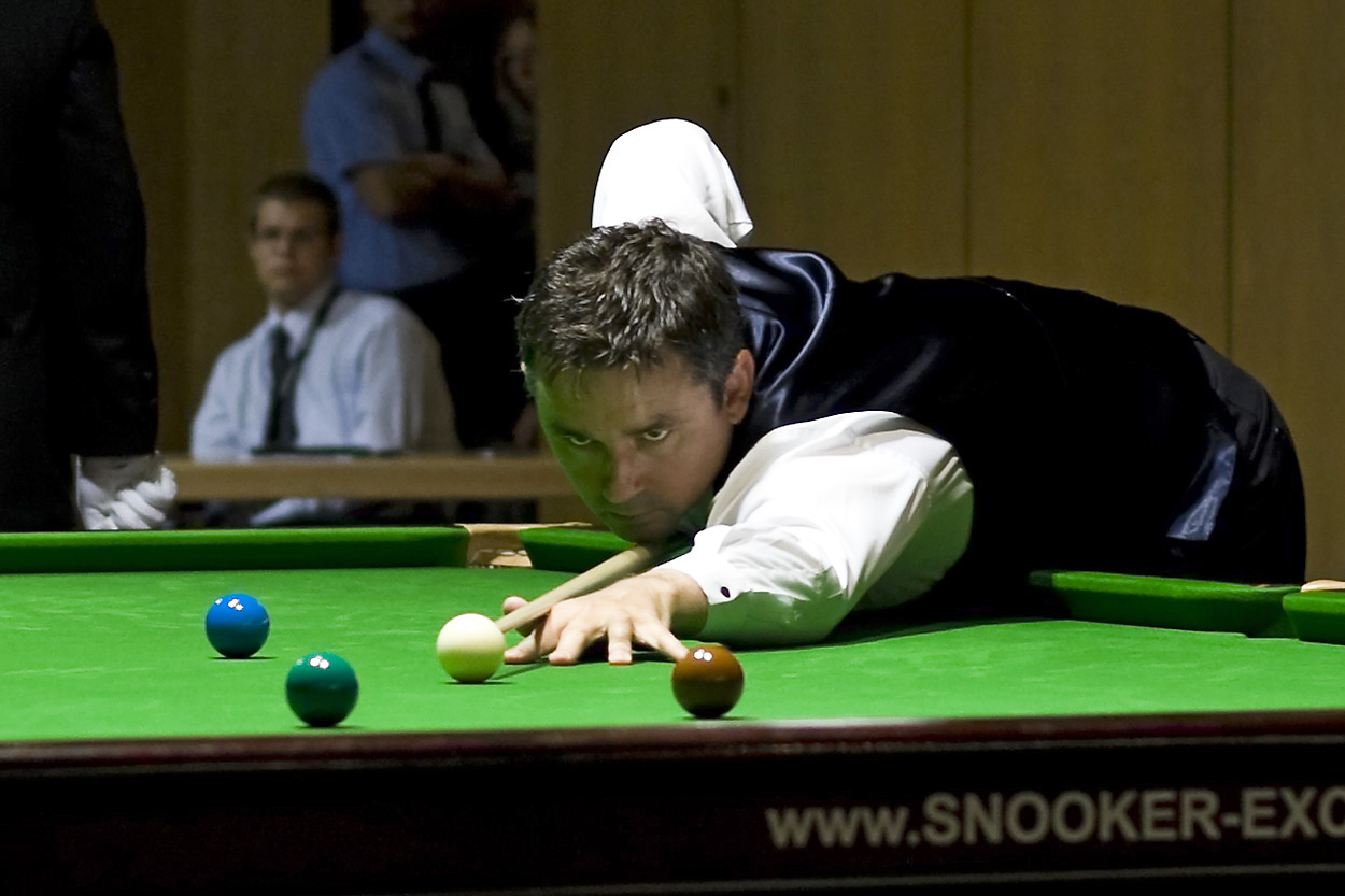 Alan McManus at the Paul Hunter Classic 2009